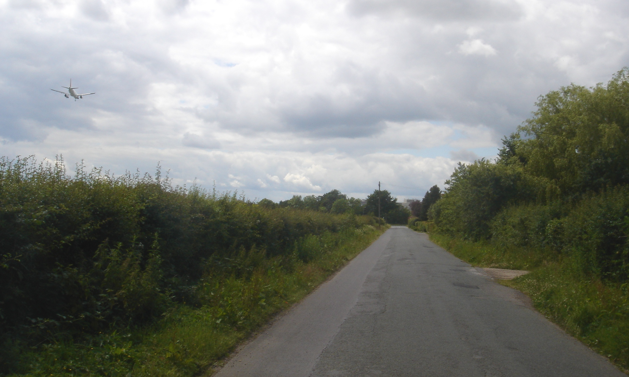 Fernhill Road, Fernhill, Borough of Crawley, West Sussex, England. I am standing about halfway along the lane looking west towards Gatwick Airport, some of whose buildings can be seen in the background. The flight path is directly overhead, as can be seen with the aeroplane coming in to land. On 5 January 1969, Ariana Afghan Airlines Flight 701 crashed immediately to the left (south) of this point, destroying a house and creating a lengthy wreckage trail in the field alongside the road.